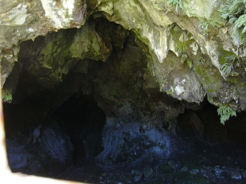 Cave at the archaeological site of Atapuerca (Sierra Atapuerca), an ancient karstic region, Province of Burgos, Castile-Leon, Spain. There are several caves such as the Gran Dolina, where fossils and stone tools of the earliest known hominids in Europe have been found. The site is listed as a UNESCO World Heritage Site.